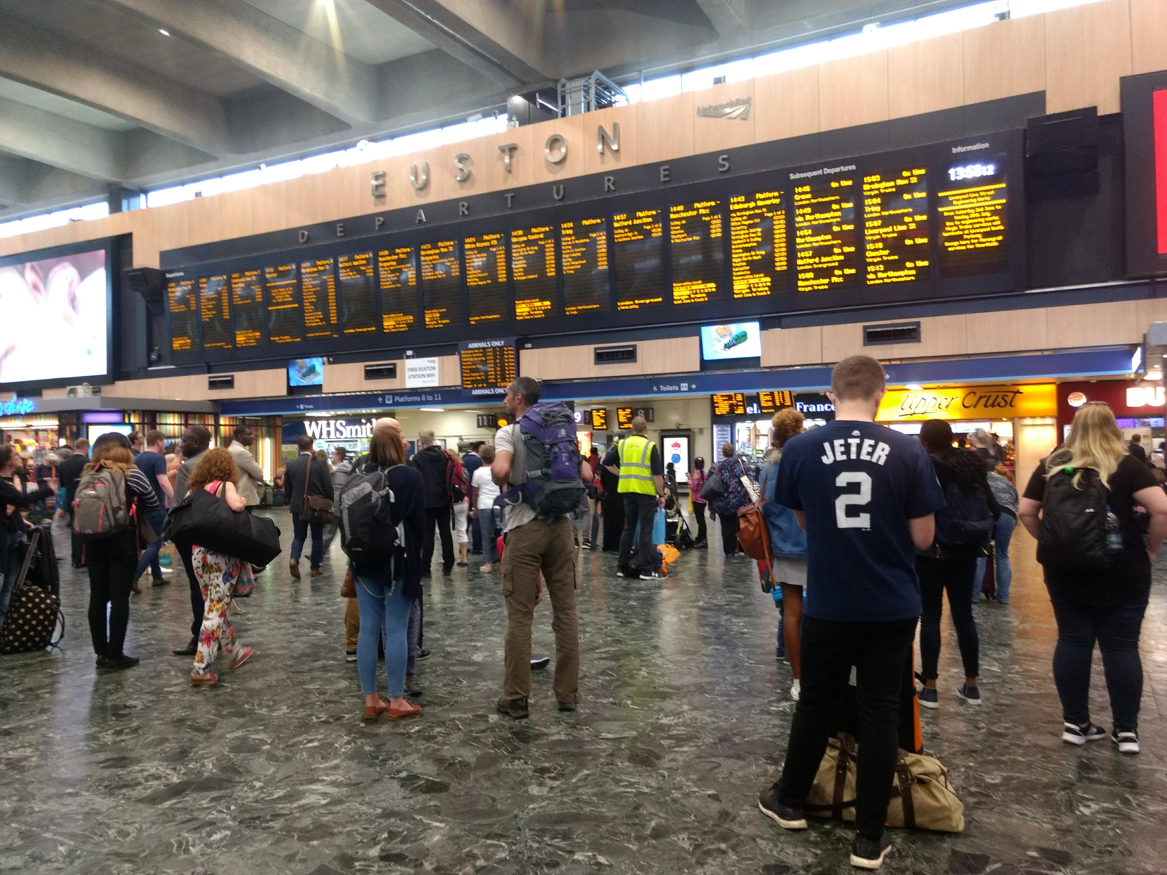 London